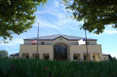 MBBC library front